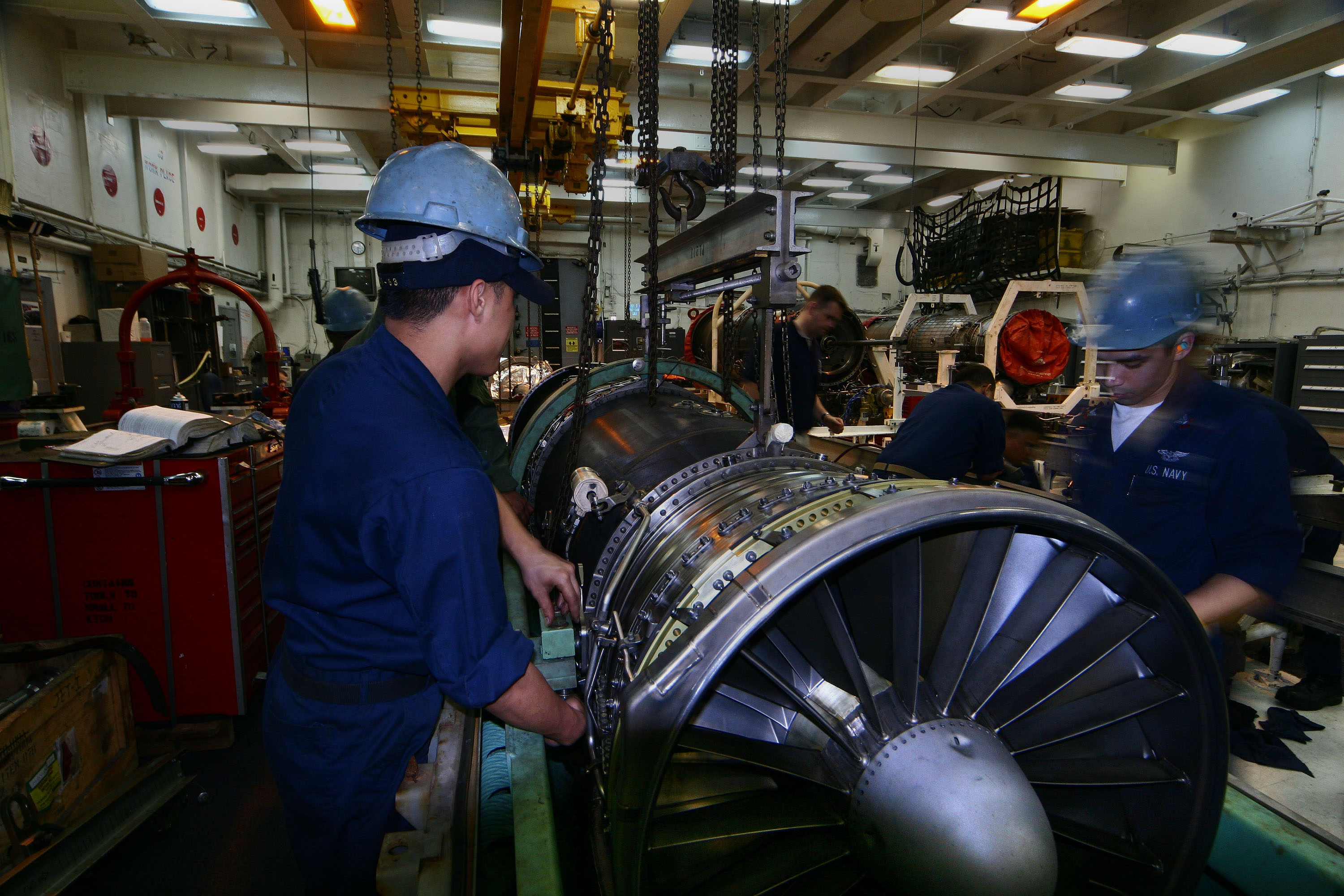 Coral Sea (June 17, 2005) - Sailors assigned to the Aircraft Intermediate Maintenance Department (AIMD) jet shop lower a F/A-18 Hornet engine into its container aboard the conventionally-powered aircraft carrier USS Kitty Hawk (CV 63). Kitty Hawk is currently operating off the coast of Australia's Queensland region as part of exercise Talisman Sabre 2005. Talisman Sabre is an exercise jointly sponsored by the U.S. Pacific Command and Australian Defense Force Joint Operations Command, and designed to train the U.S. 7th Fleet commander's staff and Australian Joint Operations staff as a designated Combined Task Force (CTF) headquarters. The exercise focuses on crisis action planning and execution of contingency response operations. U.S. Pacific Command units and Australian forces will conduct land, sea and air training throughout the training area. More than 11,000 U.S. and 6,000 Australian personnel will participate. U.S. Navy photo by Photographer's Mate 1st Class Hana'lei Shimana (RELEASED)